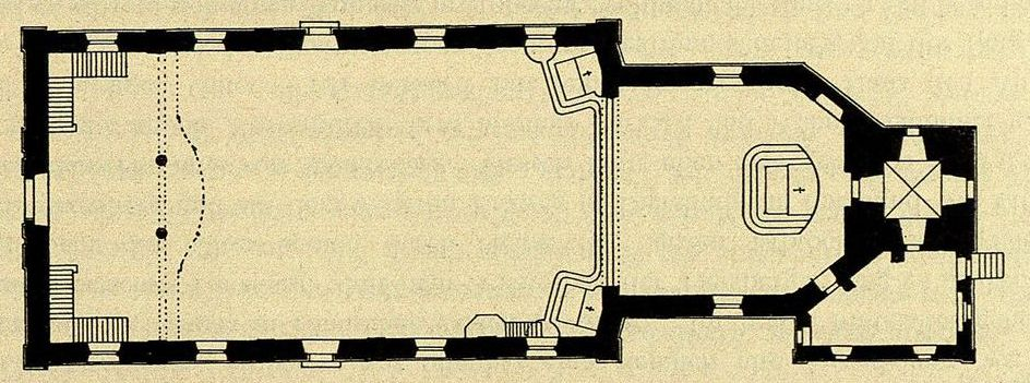 ground plan of the church St. Gallus in Hofweier, Hohberg, Ortenaukreis, Baden-Württemberg, Germany